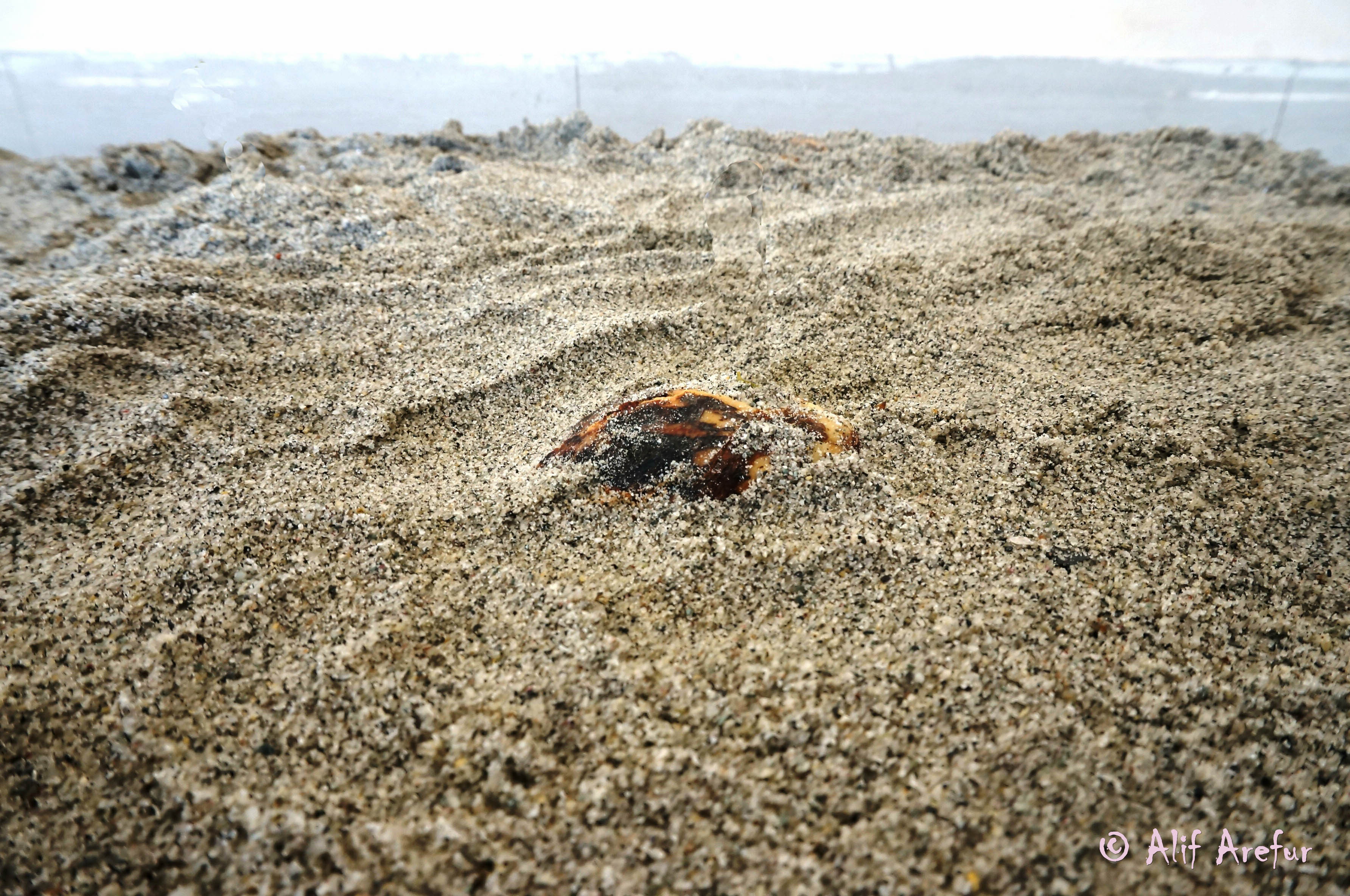 Avocado seed placed in sand at Malik's Farm